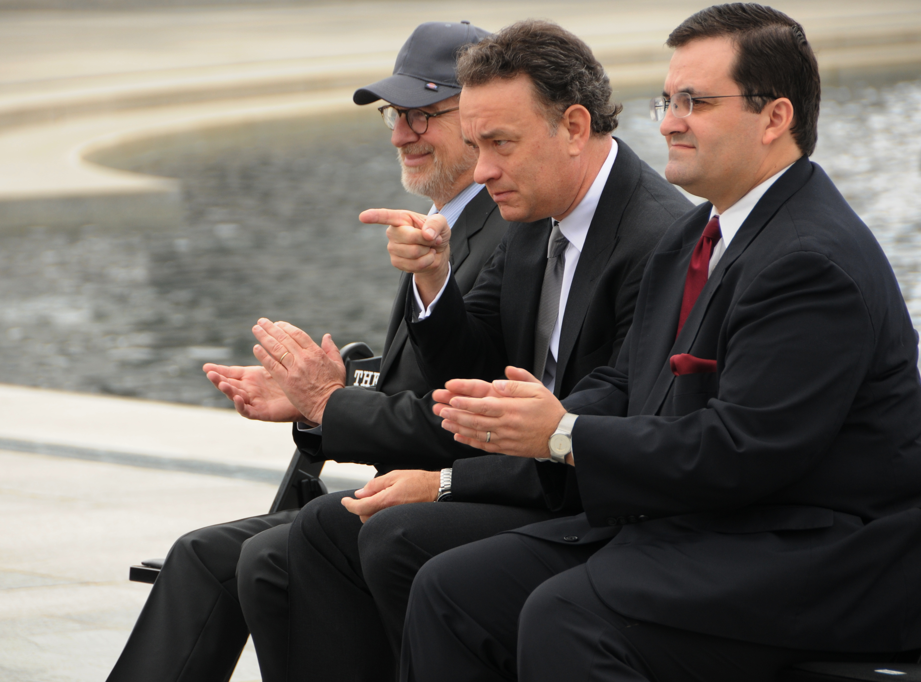 Actor Tom Hanks, center, points to 250 veterans at the World War II Memorial March 11, during a speech by HBO co-president Richard Plepler (not pictured). Fellow executive producer Steven Spielberg is seated on Hanks' right.